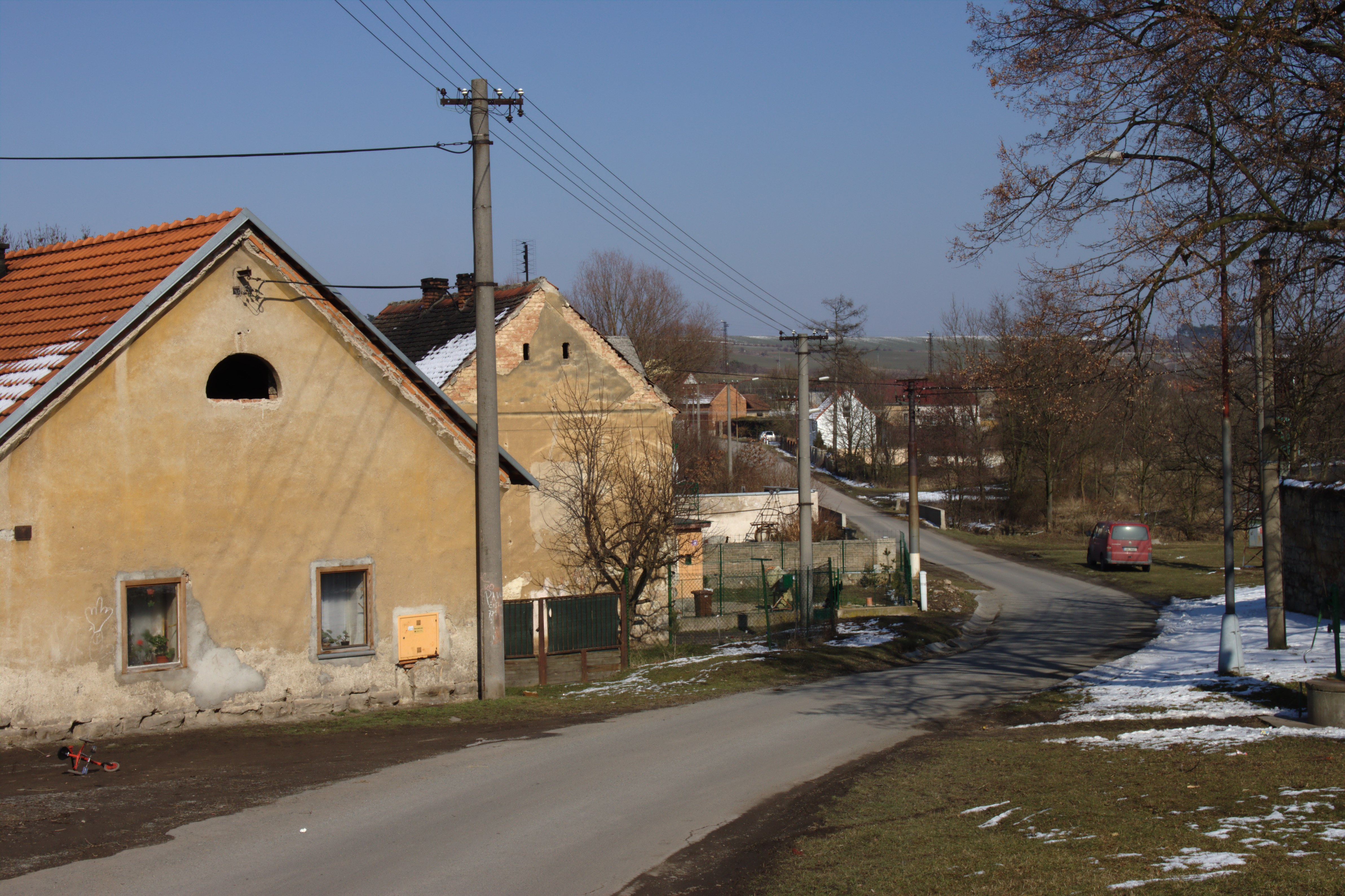 Some houses in Kobylníky, Central Bohemian Region, CZ